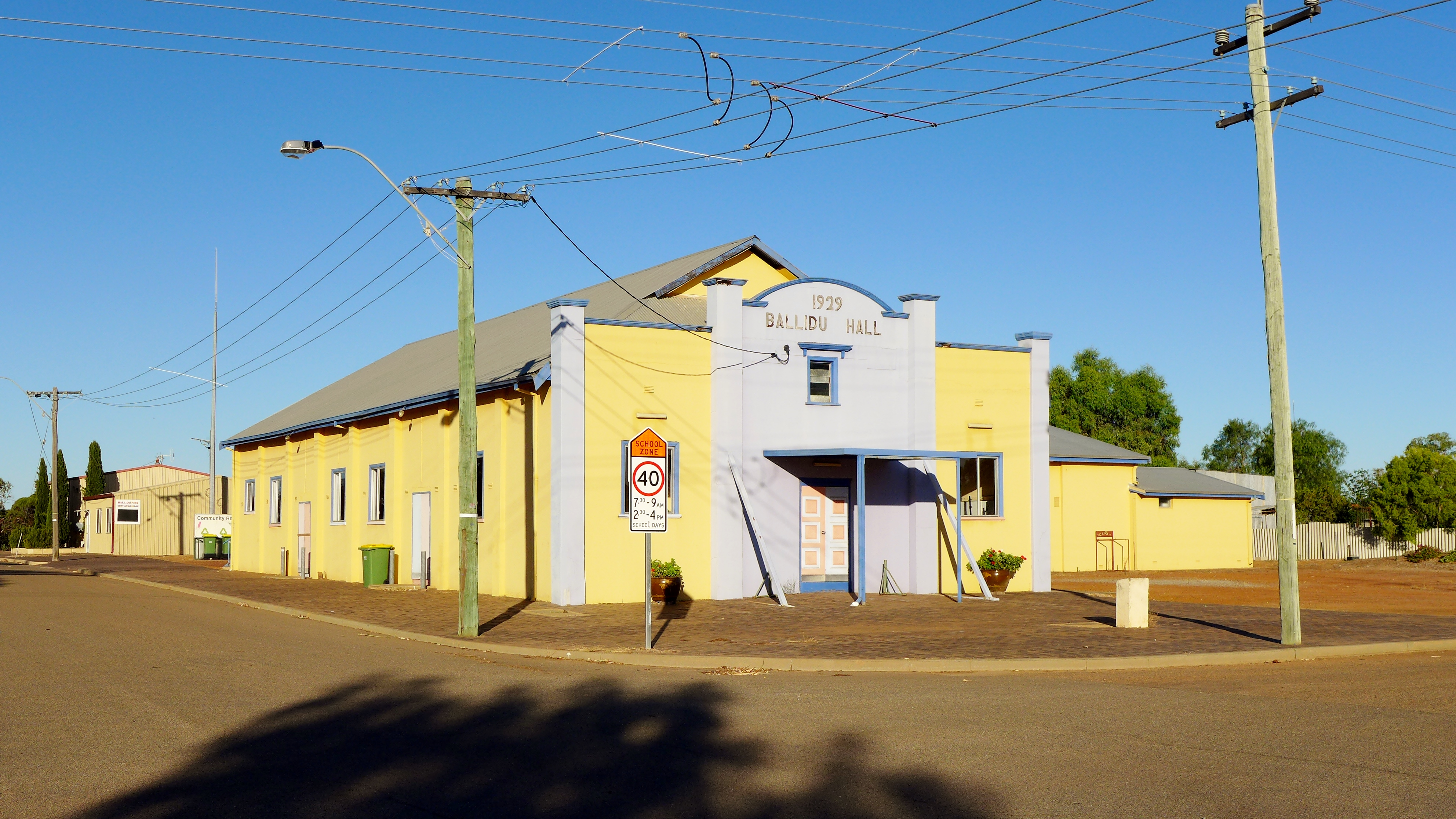 View of Ballidu Hall, cnr Fairbanks and Alpha Streets, Ballidu, Western Australia.